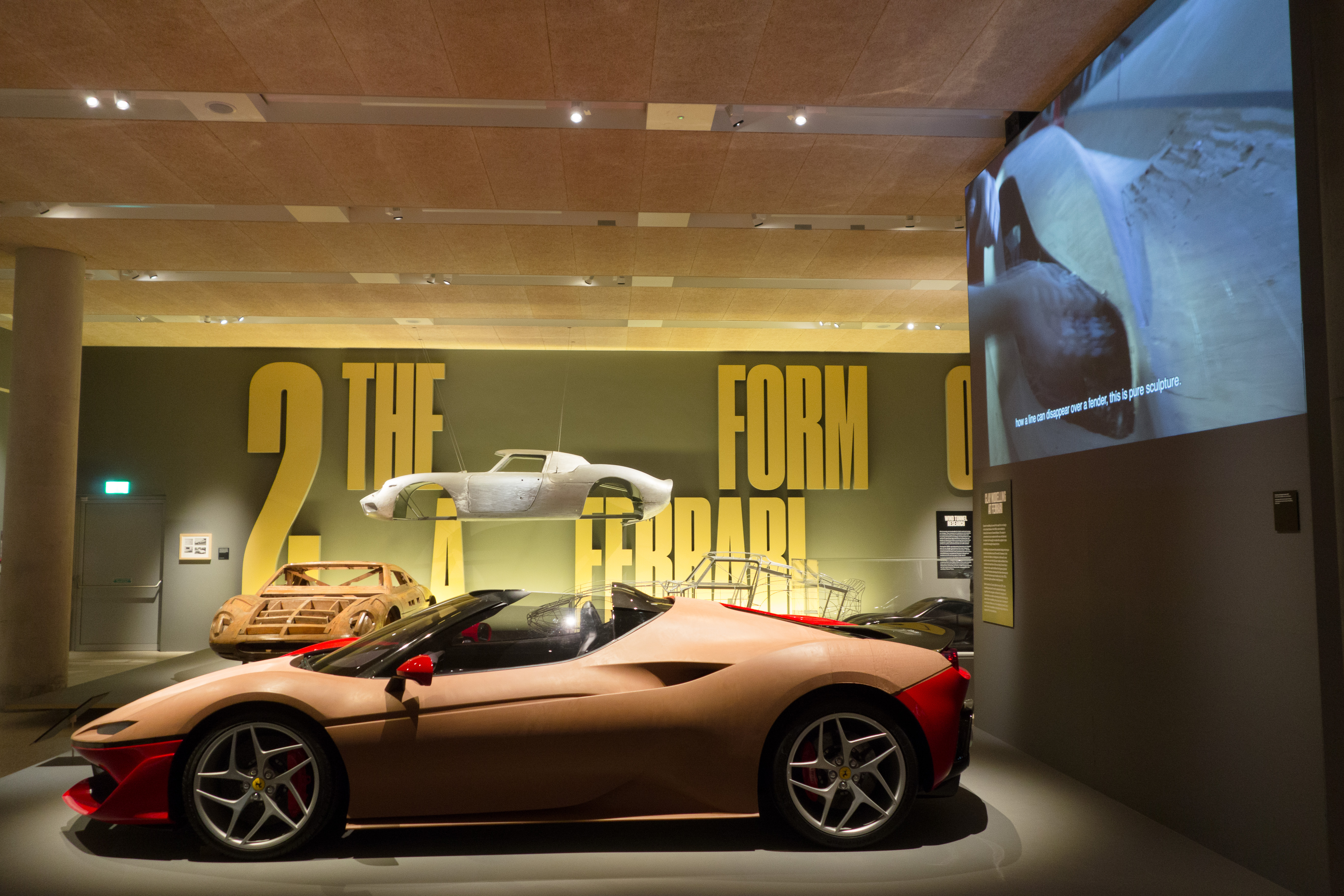 2016 Ferrari J50. At "Under the skin" Ferrari exhibition at London Design Museum 2018.[1]